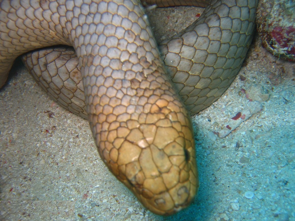 Closeup of an Olive Sea Snake (Aipysurus laevis). Lighthouse, Ribbon Reefs, Great Barrier Reef219674016